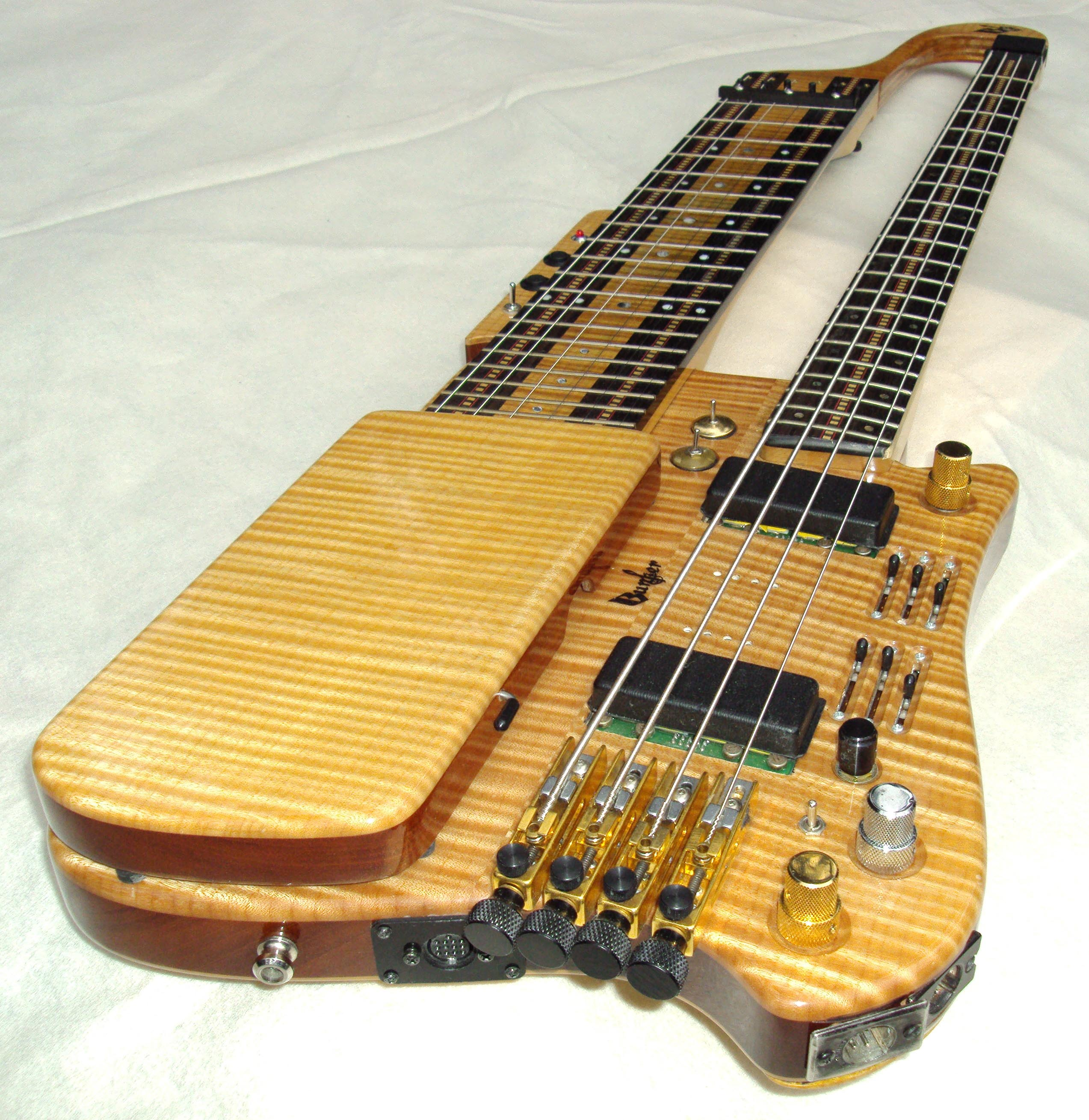 Designed and built by Dave Bunker in 1999 in Mill Creek, Washington, this two neck, full range stringed musical instrument was the eventual successor to the 1961 DuoLectar guitar. (Photo taken by Dave Bunker.)